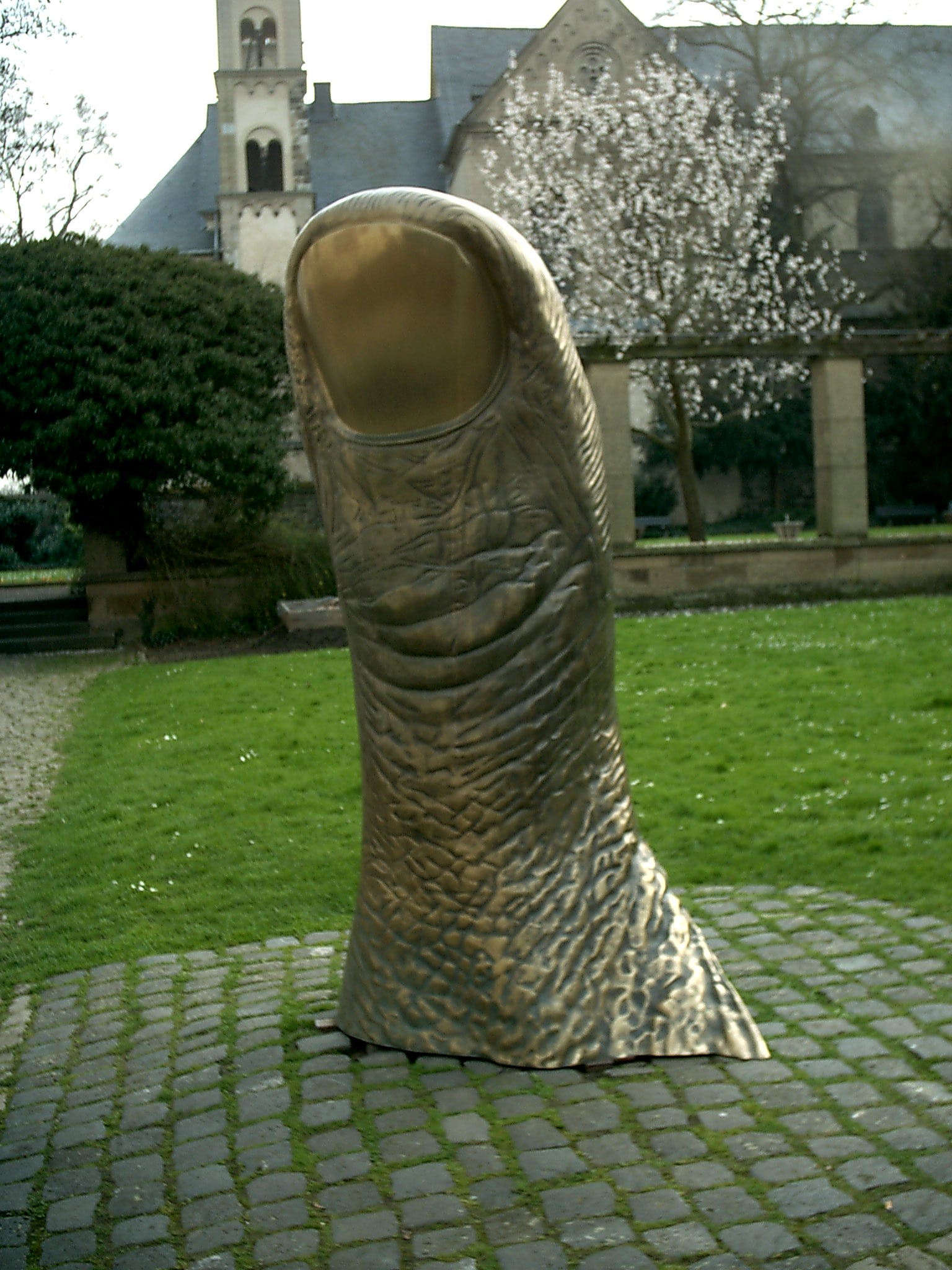 shelly